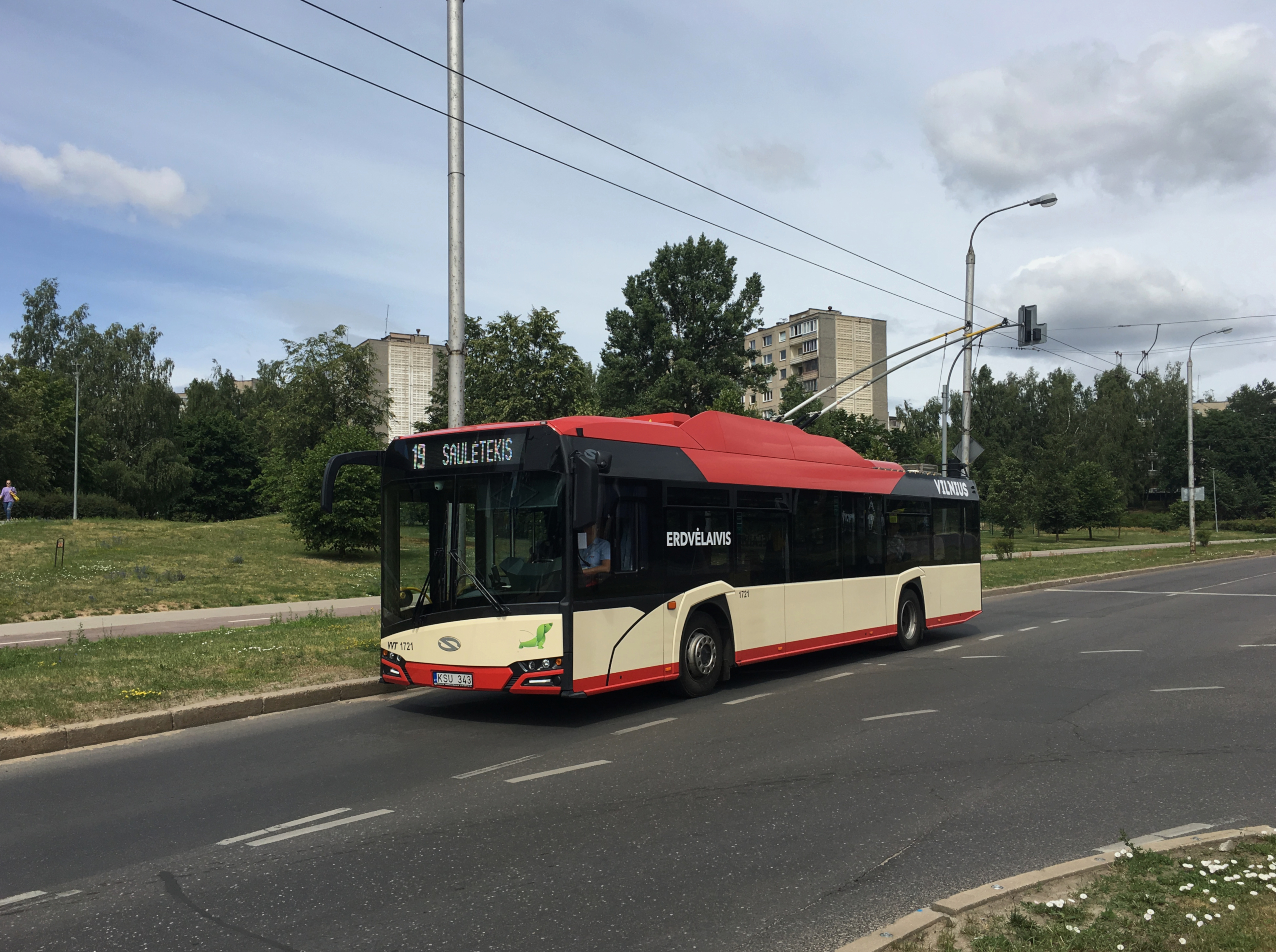 Trolleybus Solaris Trollino IV 12 in Vilnius on Freedom prospect (Lithuanian: Laisvės prospektas). Picture taken on 29 July 2019.